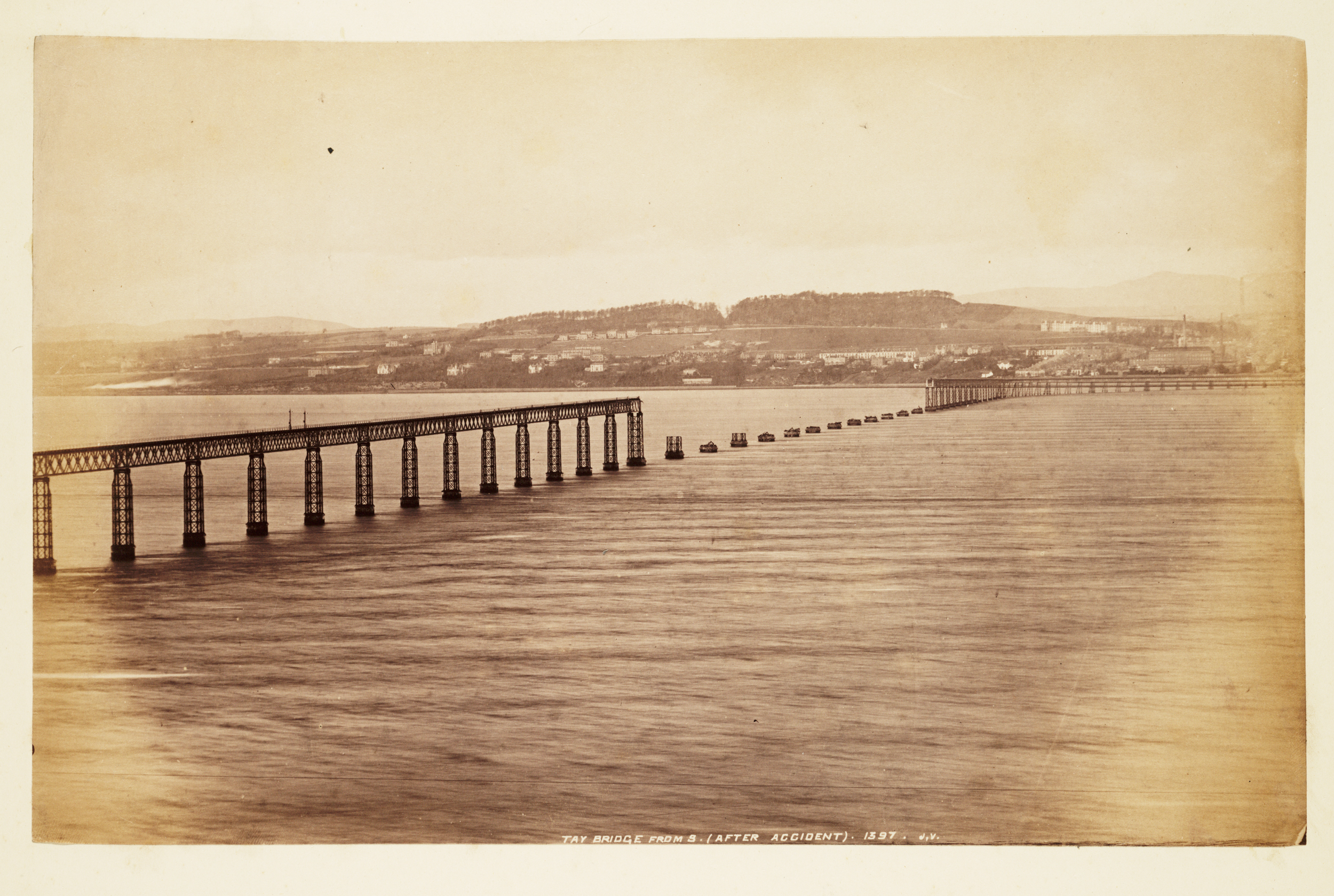 Photograph of the first Tay Bridge after the collapse of a large section.